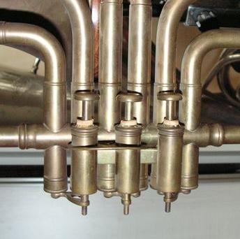 vienna valve on trombone (detail)